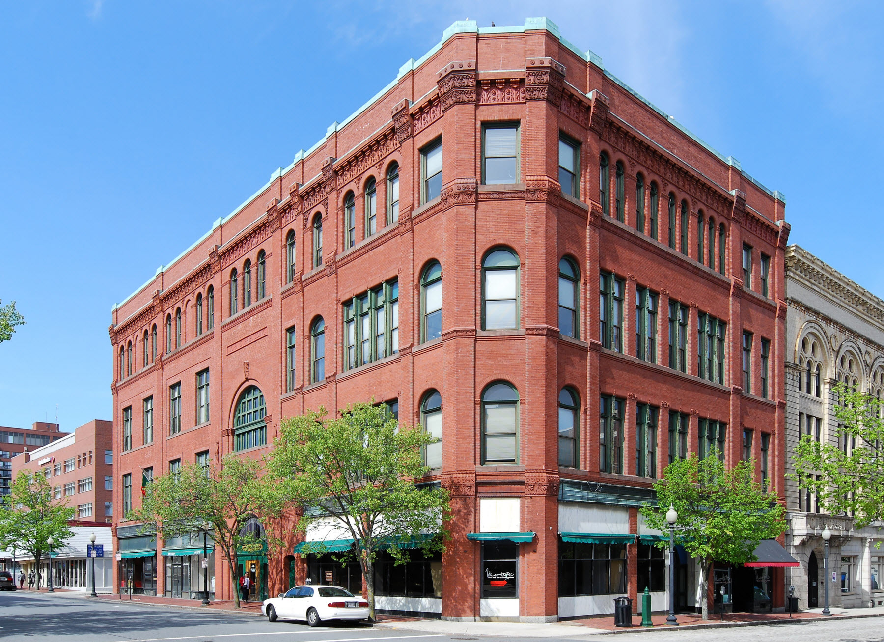 Duff Building, Downtown New Bedford, Massachusetts